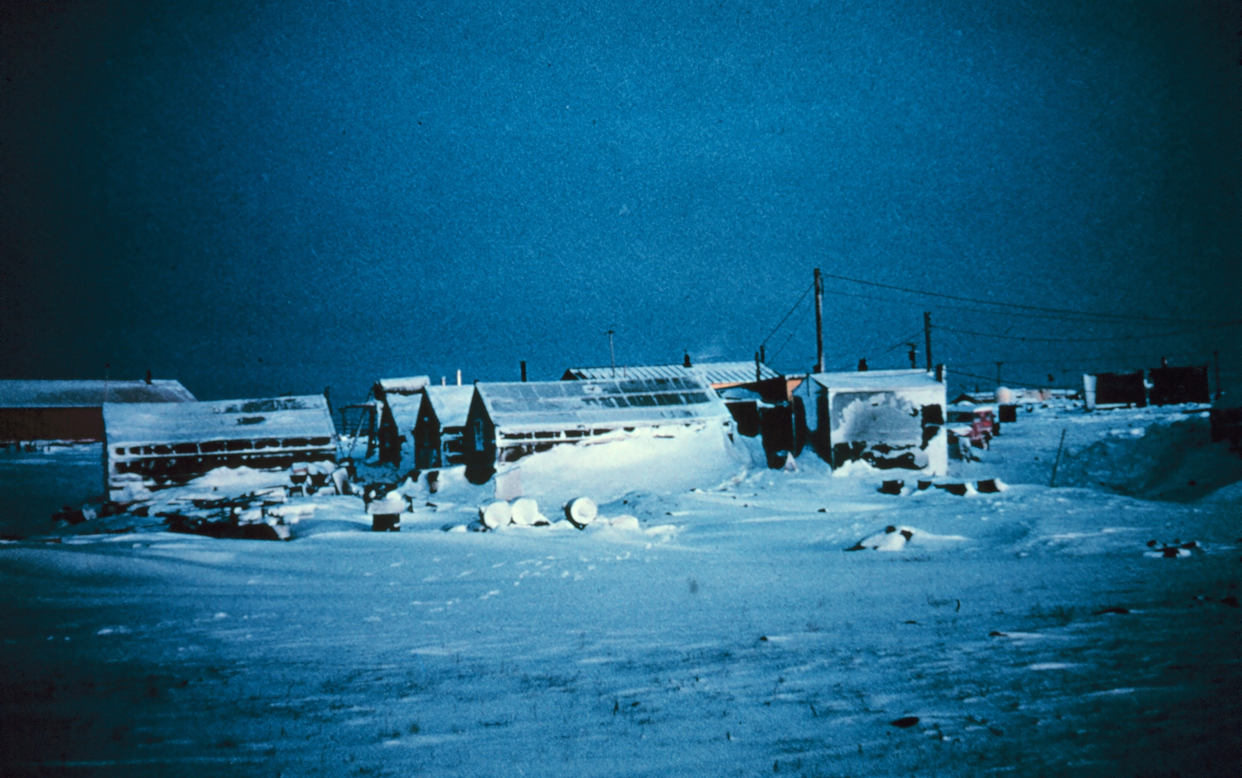 Station Nord, North East Greenland